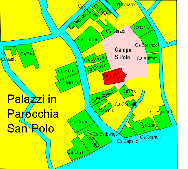 Map of palaces in parocchio San Polo - sestiere di San Polo - Venezia